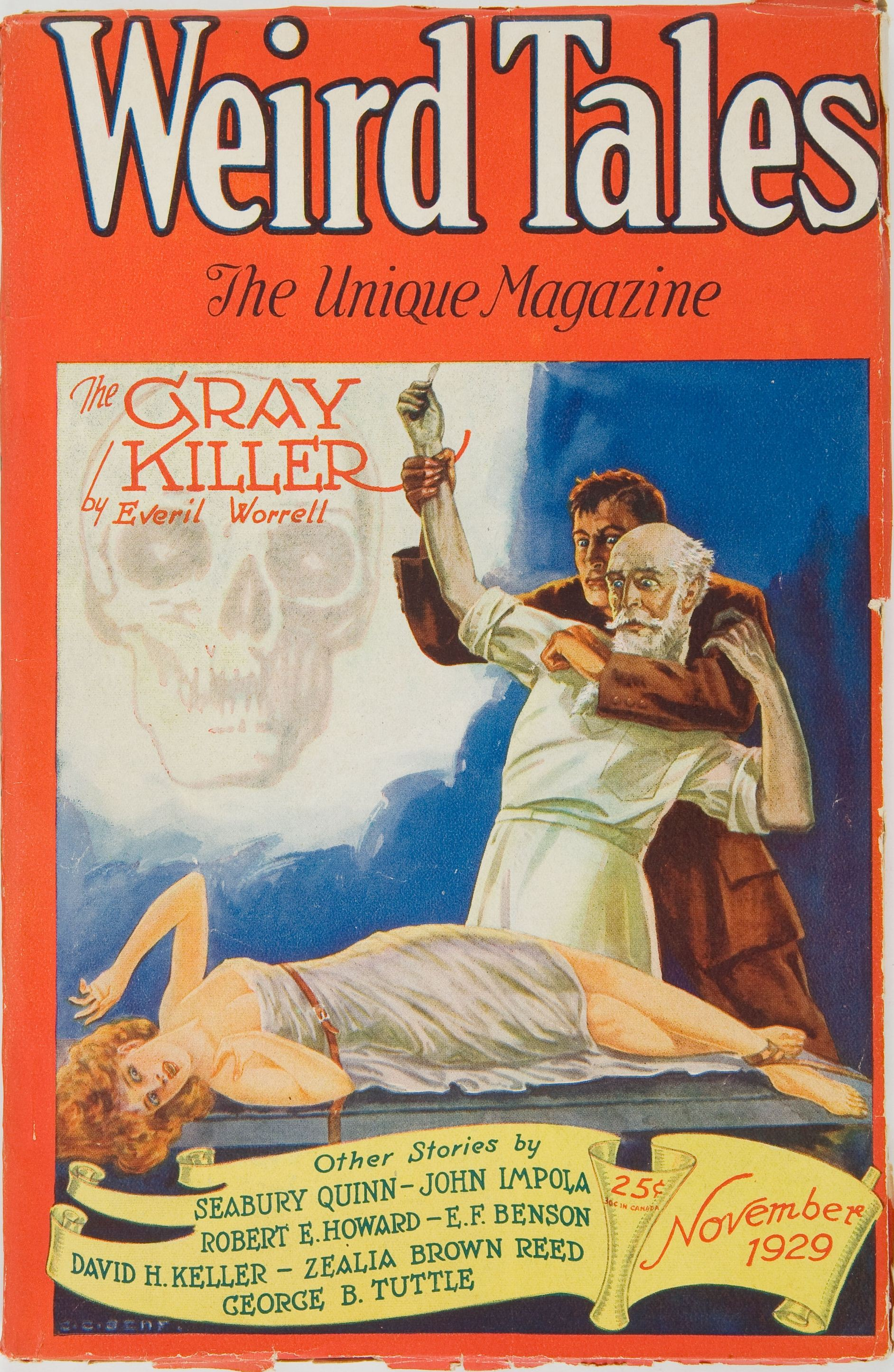 Cover of the pulp magazine Weird Tales (November 1929, vol. 14, no. 5) featuring The Gray Killer by Everil Worrell. Cover art by C. C. Senf.